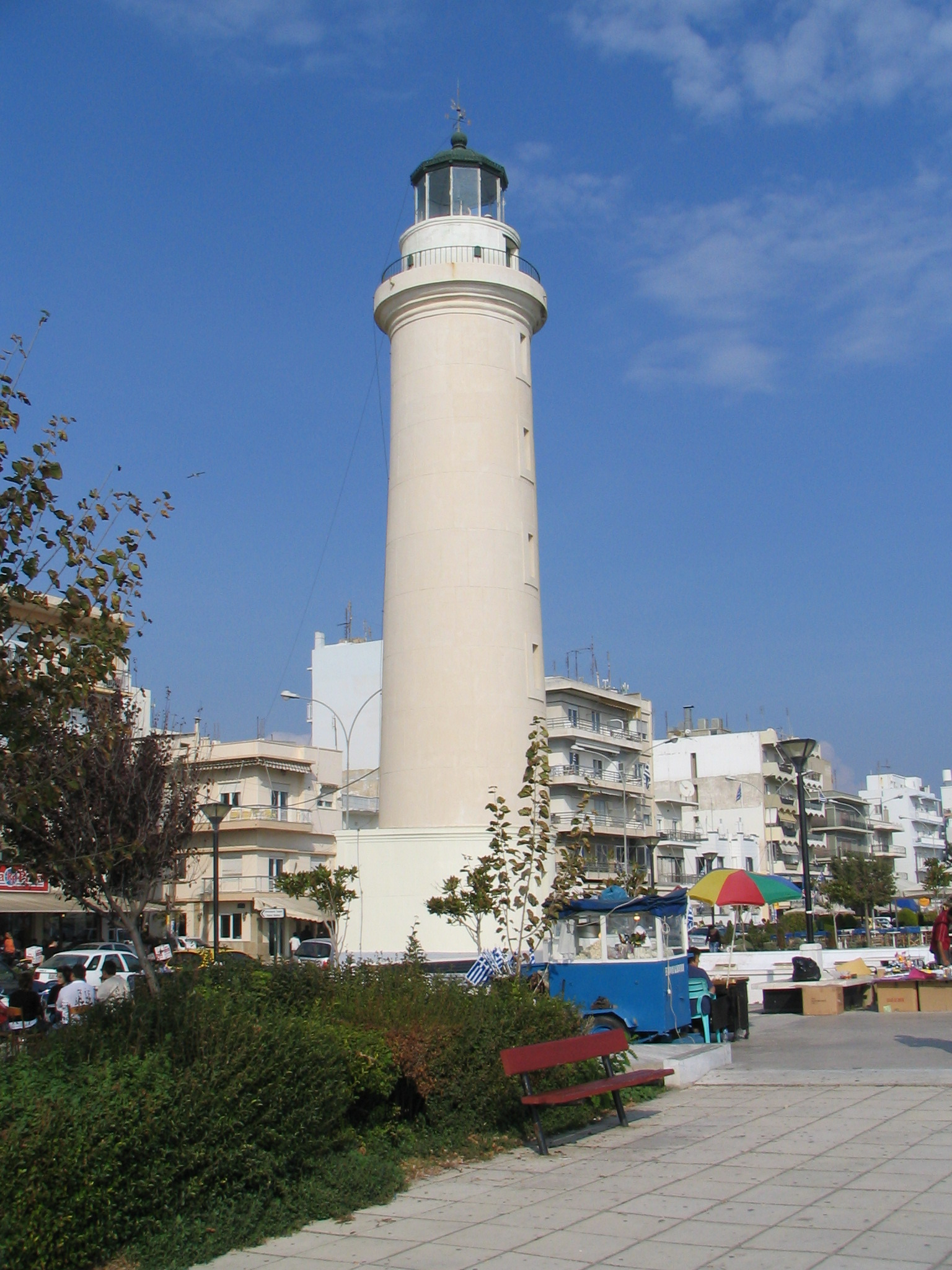 Lighthouse in the port of Alexandroupolis in Evros Region of Thraki Perfecture in Northen Greece